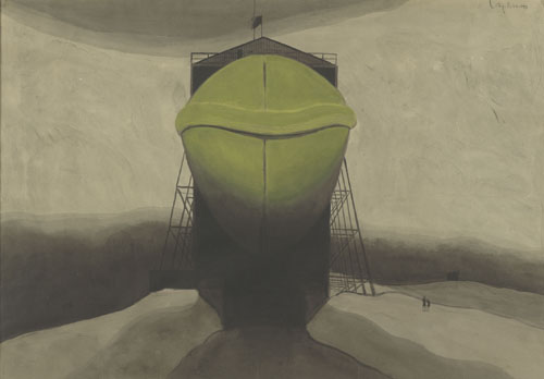 Airship "Belgique II"